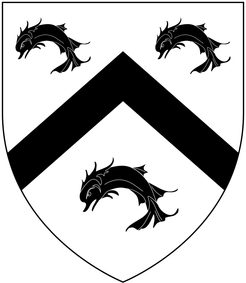 Arms of Kendall of Kingsbridge and of Cofton, Devon: Argent, a chevron between three dolphins naiant embowed sable (Vivian, Lt.Col. J.L., (Ed.) The Visitations of the County of Devon: Comprising the Heralds' Visitations of 1531, 1564 & 1620, Exeter, 1895, p.514).